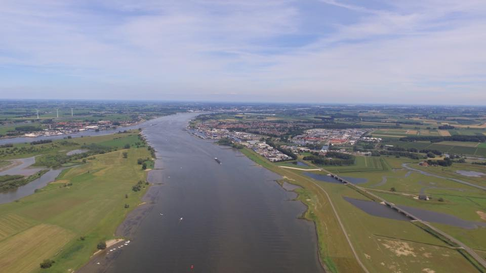 The three Merwede rivers. In the background is the Boven-Merwede, which splits into the Beneden-Merwede (left) and the Nieuwe-Merwede (foreground).